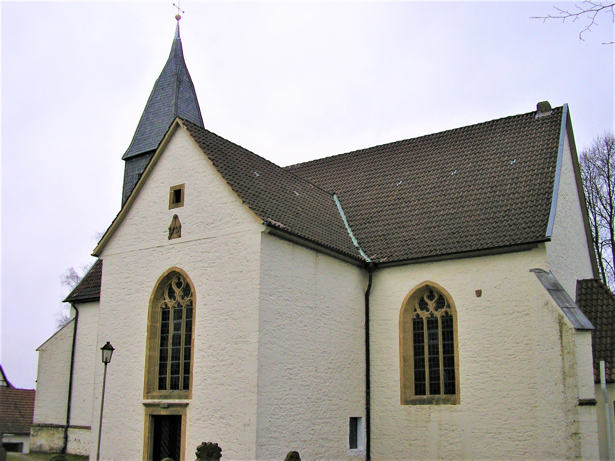 Church in town of Vlotho, District of Herford, North Rhine-Westphalia, Germany.